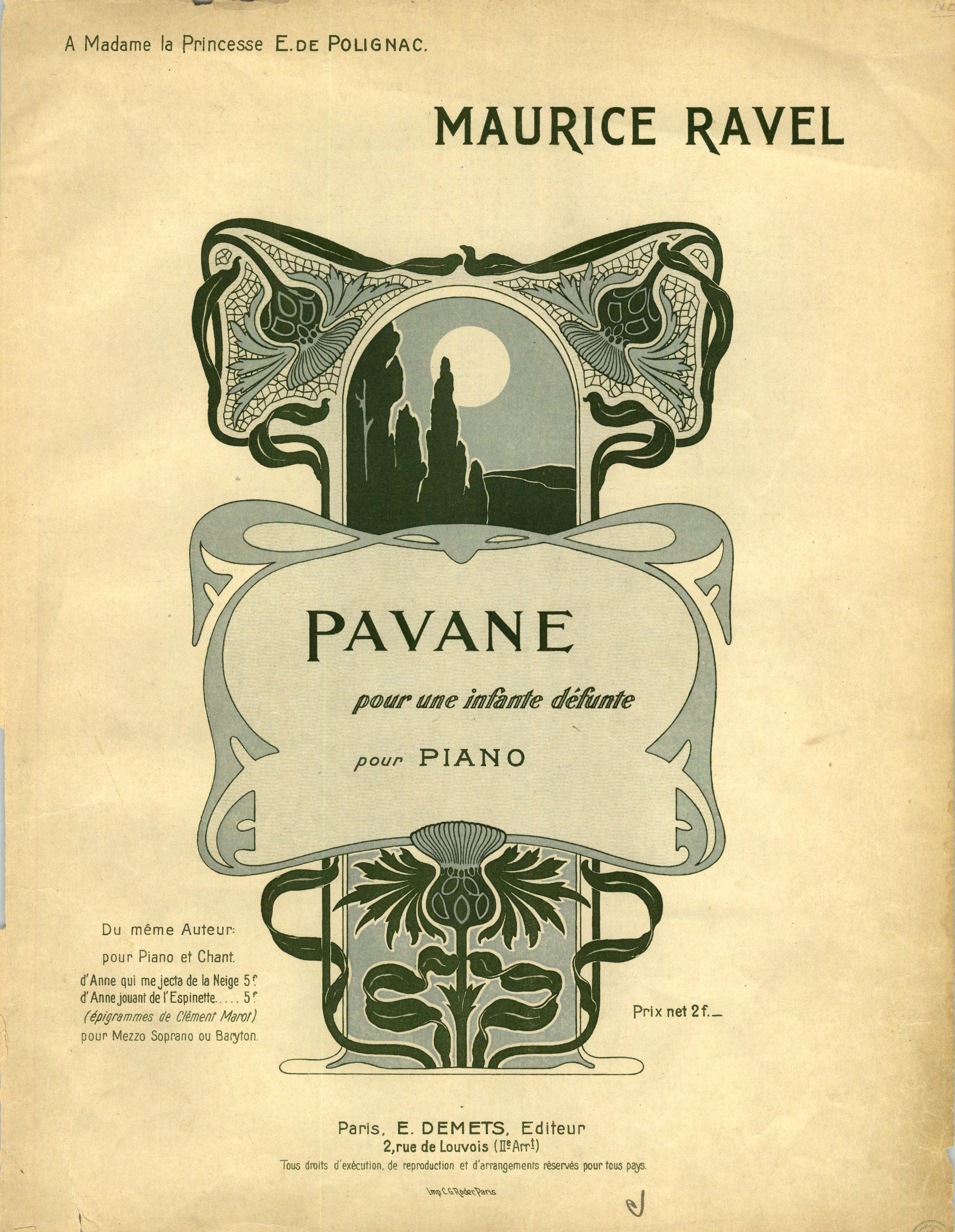 Cover art of Ravel's Pavane pour une infante défunte